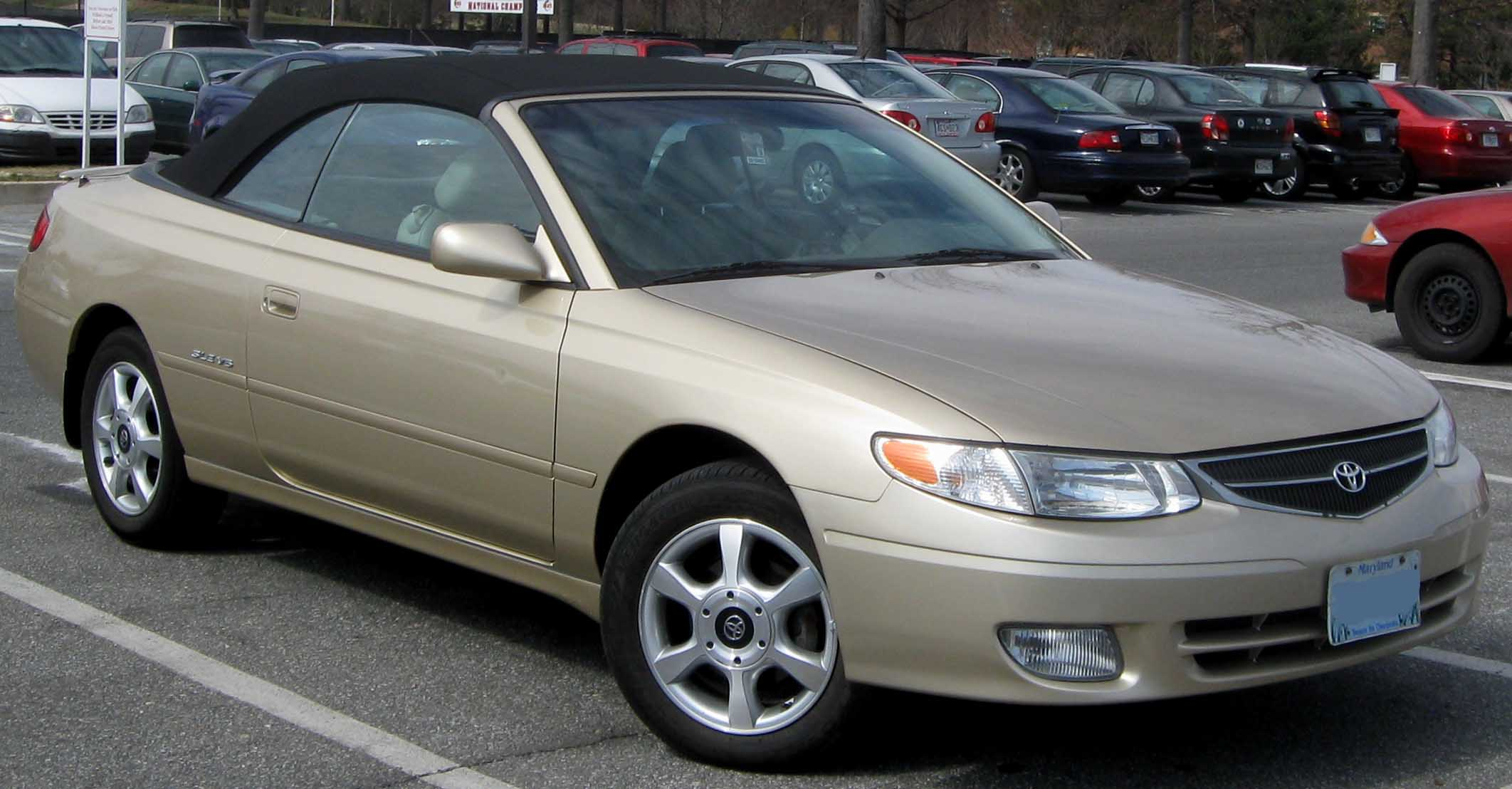 2000-2001 Toyota Solara photographed in College Park, Maryland, USA.